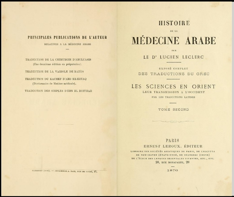 Lucien Leclerc - Histoire de la médecine arabe 1876 Screen shot of the book